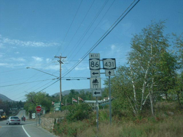 New York State Route 86